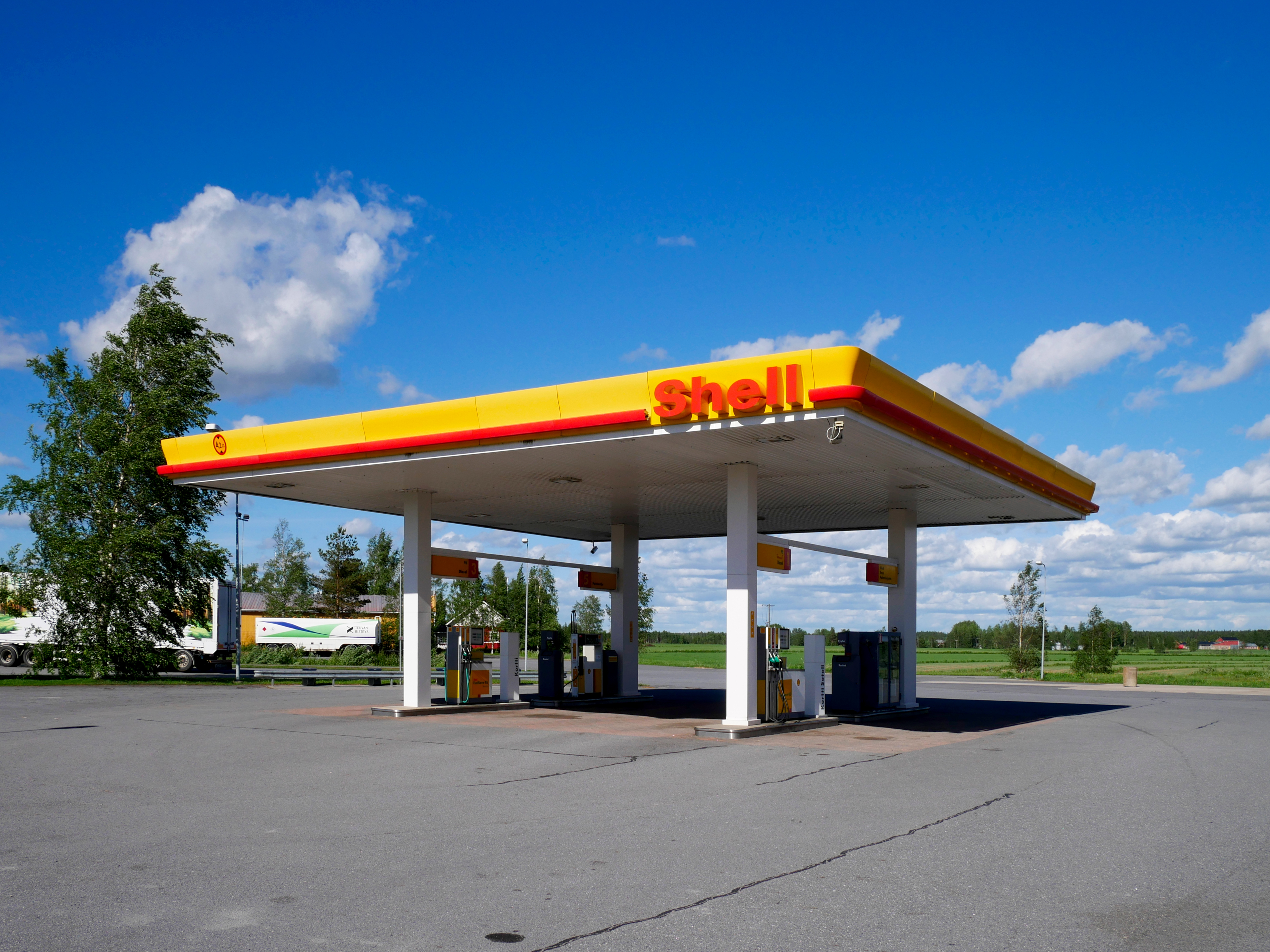 Shell automaattiasema Teuvalla.